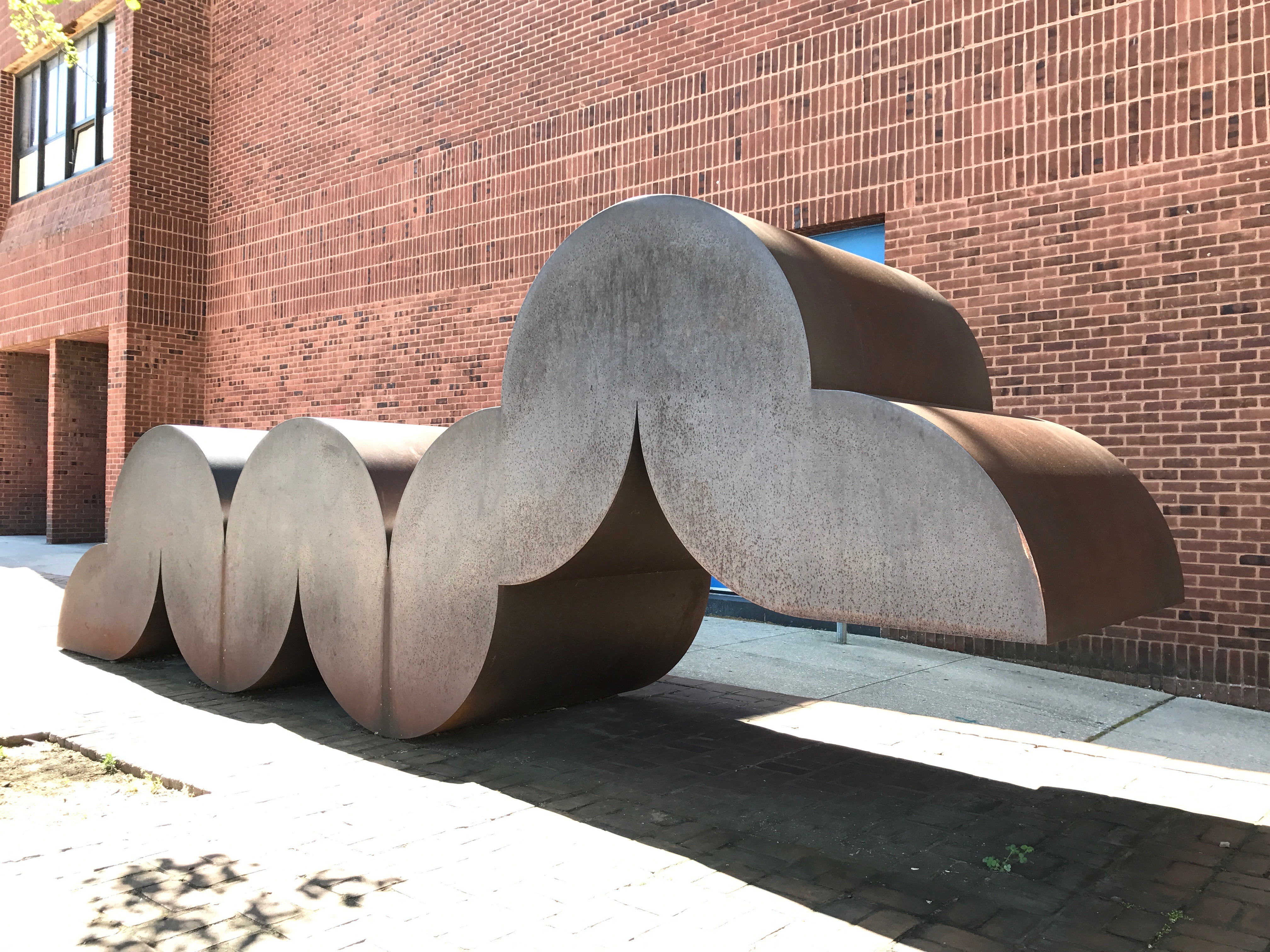 Photograph by Eli Pousson, 2017 June 9.